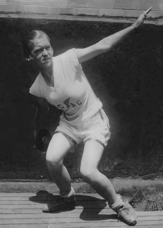 1928 Press Photo Track star Gloria Russell selected for Olympic Trials in Newark